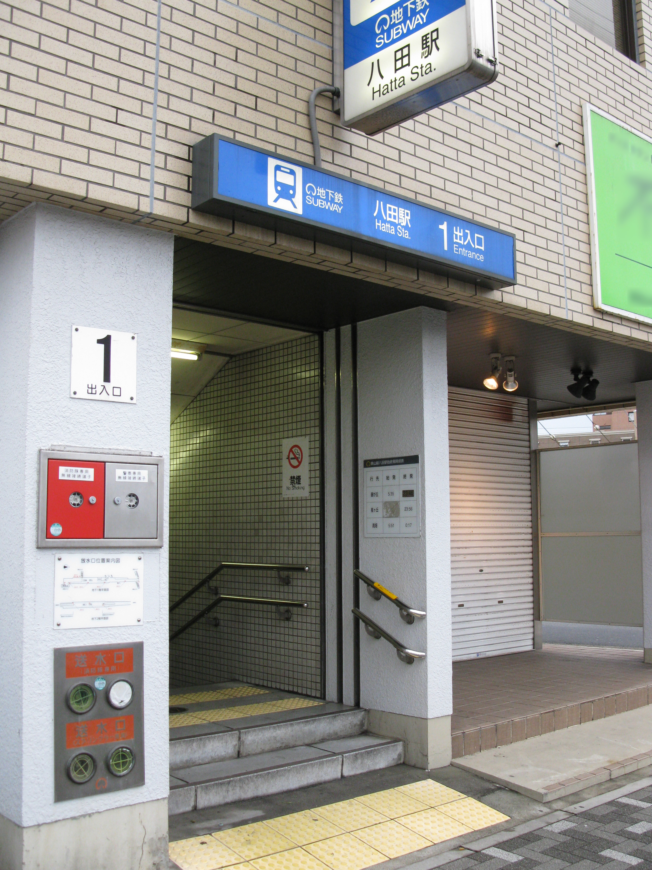 Hatta Station no.1 entrance (Nagoya Municipal Subway Higashiyama Line)